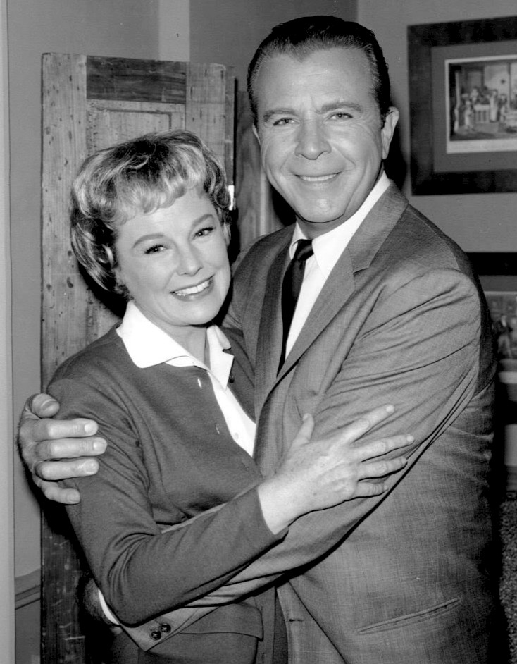 Photo of June Allyson and Dick Powell from The Dick Powell Show.